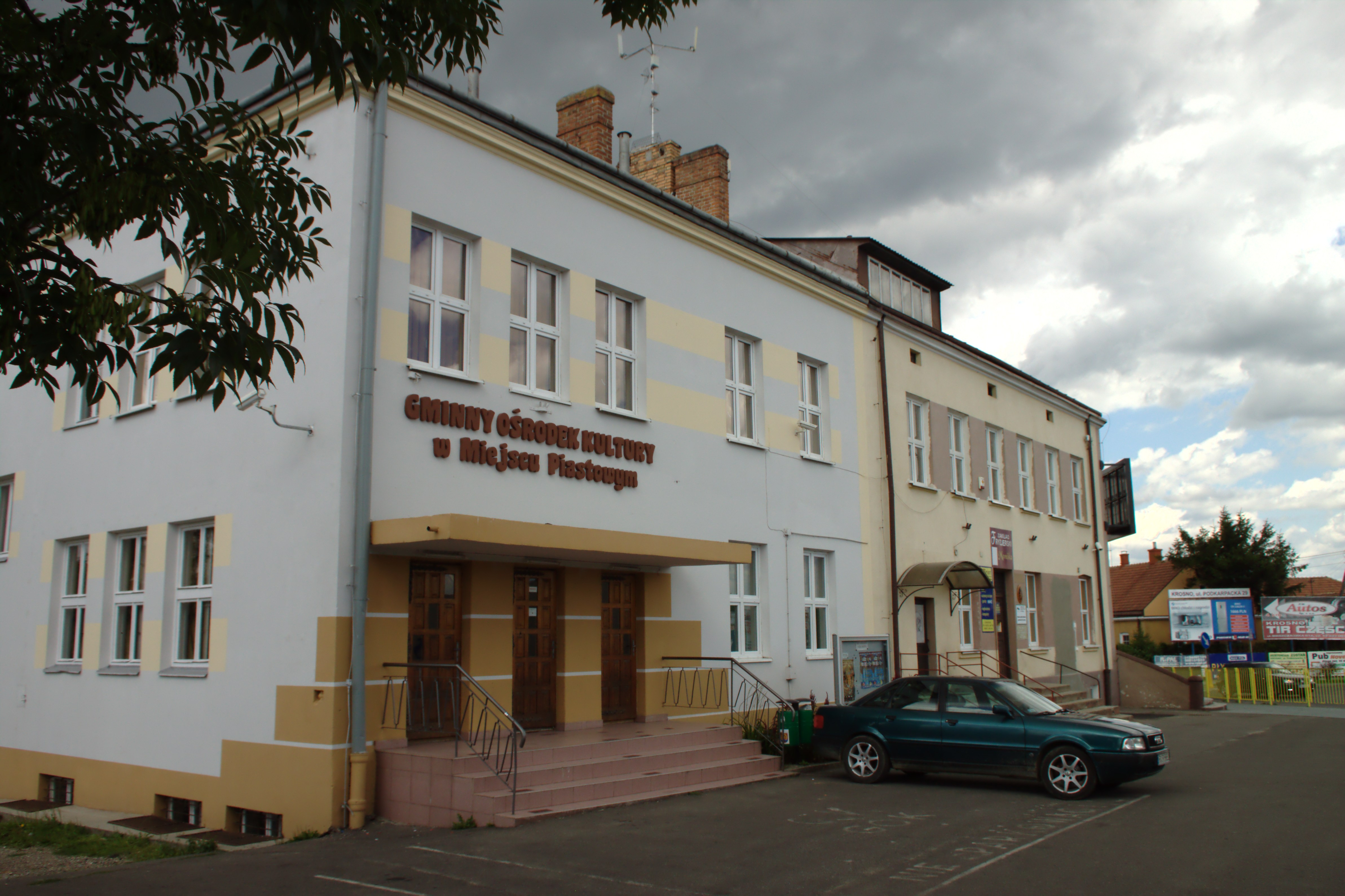 House of culture in the central part of the town of Miejsce Piastowe - near main roundabout. Podkarpackie voivodeship, Poland This photo of Subcarpathian Voivodeship was taken during Wikiekspedycja 2011 set up by Wikimedia Polska Association.You can see all photographs in category Wikiekspedycja 2011. The making of this document was supported by Wikimedia Polska.